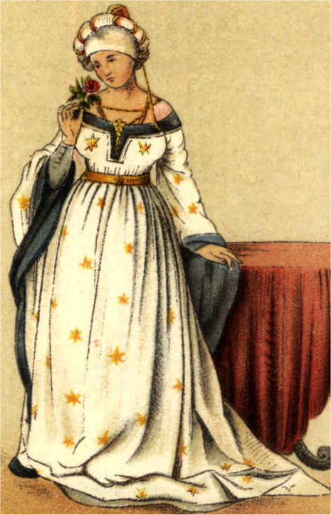 German lady (1480)